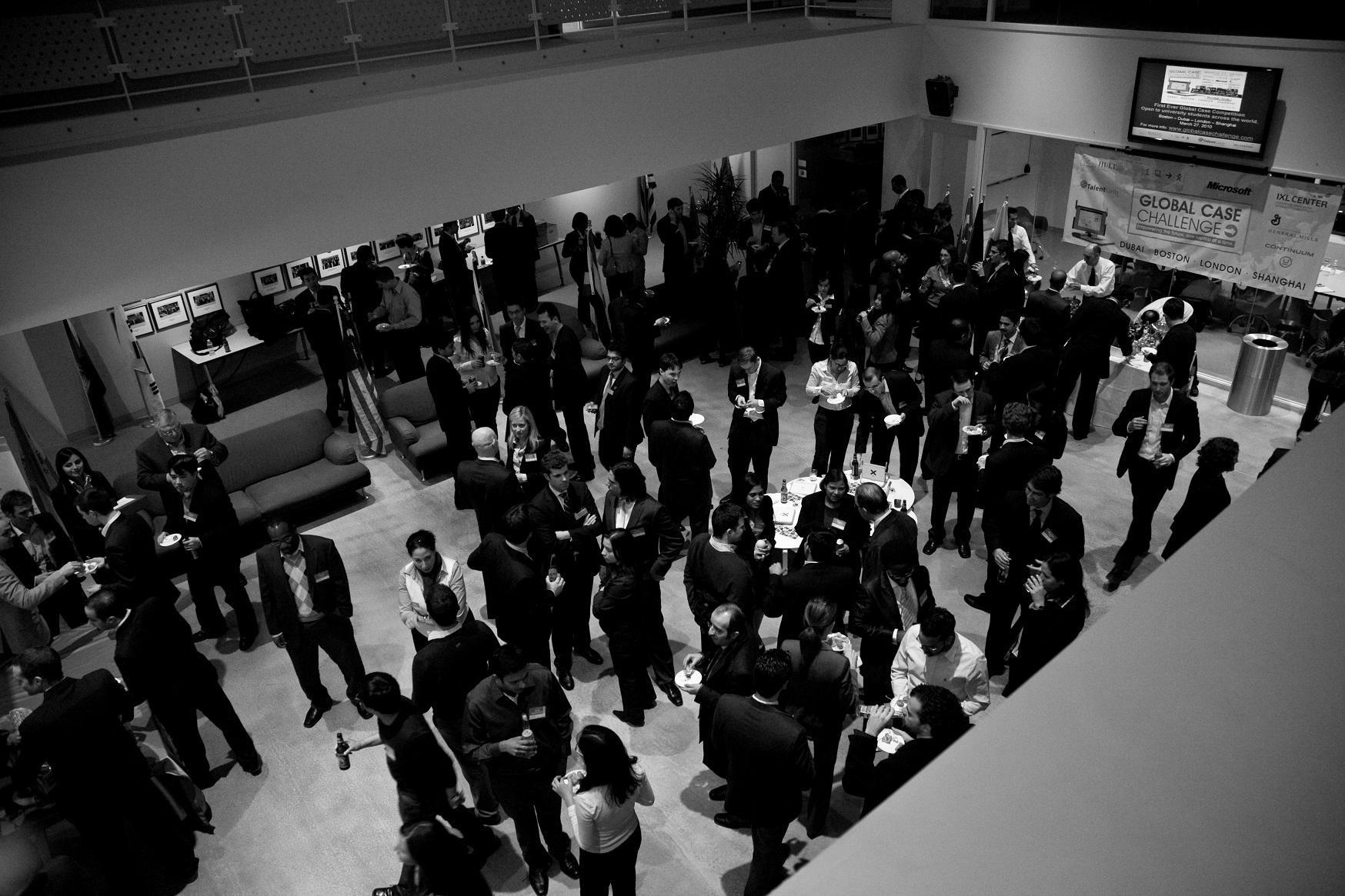 Hult Global Challenge